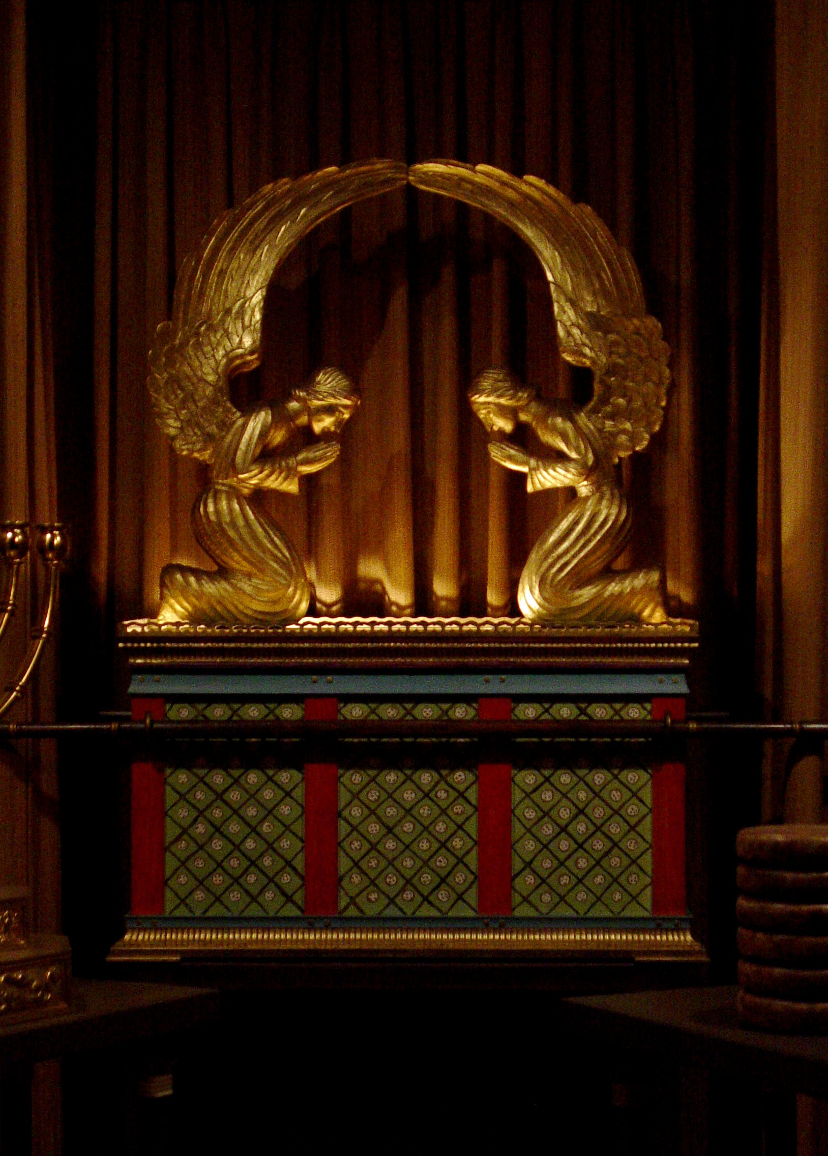 Replica of the Ark of the Covenant in the Royal Arch Room of the George Washington Masonic National Memorial.